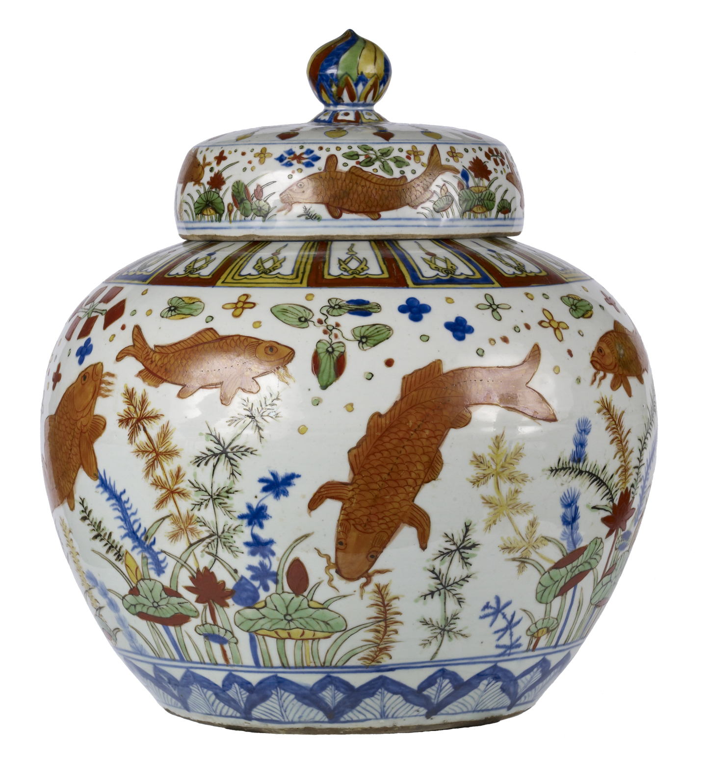 This extraordinary Chinese porcelain wine jar was made at the Jingdezhen [Ching-te Chen] kilns during the reign of the Jiajing [Chia-ching] emperor (1522-1566). Its body is white porcelain with blue underglaze decoration. To this, potters added an additional layer of colored enamels, resulting in this bright, festive design of golden carp and lotuses. This design and its associations with both fertility and good fortune suggest that this jar was made for a young, affluent couple to celebrate their marriage. Like many of the Asian objects acquired by Henry Walters, this jar is a world-renowned treasure. It is one of only nine known jars of this type in museum collections worldwide. Among this small group of similar objects, this jar is widely held to be one of the most beautifully painted and well preserved.